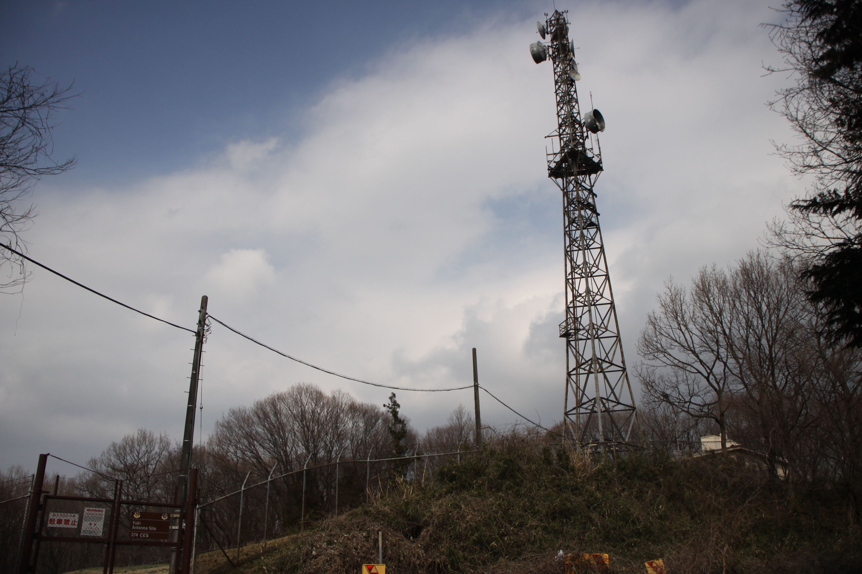 Yugi Communication Site